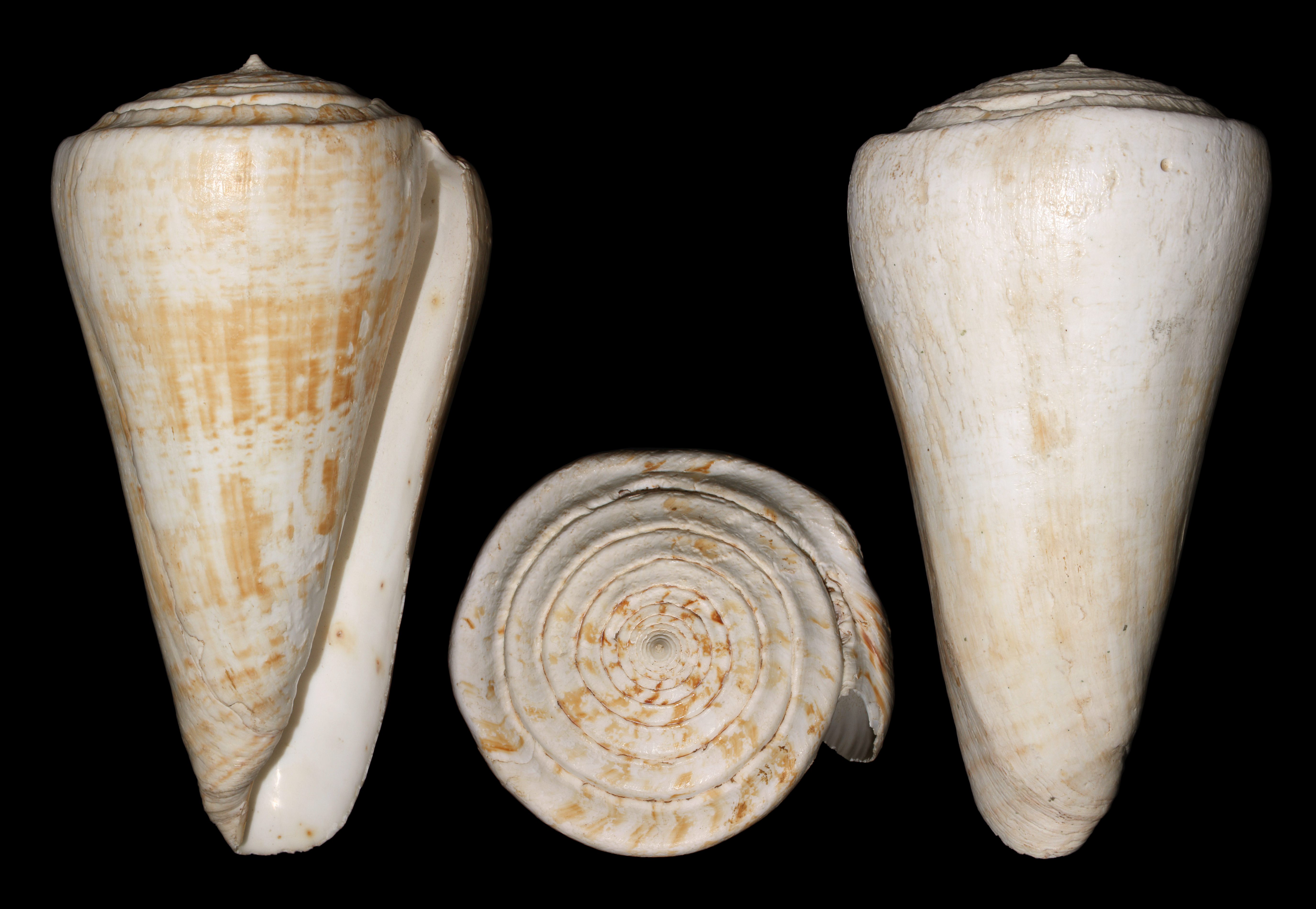 Conus pulcher Lightfoot, 1786. Specimen from Banjul, The Gambia, summer 1998. Fairly common species. 23 cm.